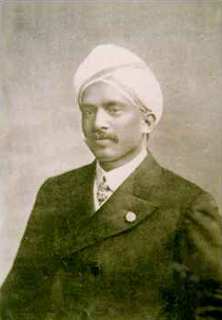 Sriram Venkatasubba Setty popularly known as S.V. Setty (1879 – 1918) (Kannada:ಶ್ರೀರಾಮ್ ವೆಂಕಟಸುಬ್ಬಾ ಸೆಟ್ಟಿ) was an Indian aviator, Professor from Mysore, Karnataka, India. He was known as The first Indian Aviator.He was the designer of most outstanding aircraft of the world for the year 1913 in collaboration with Avro company (Model name- Avro 504). This image was given by his great grand son G. N. Jayaprakash.